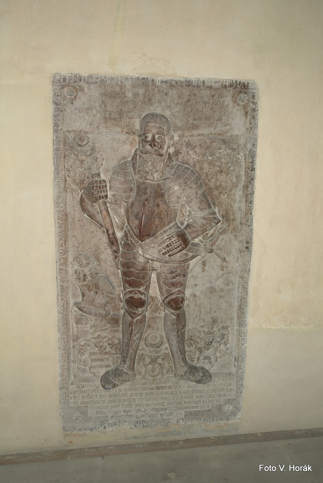 Church of Saint Mary Magdalene in Chlumín, stone plate